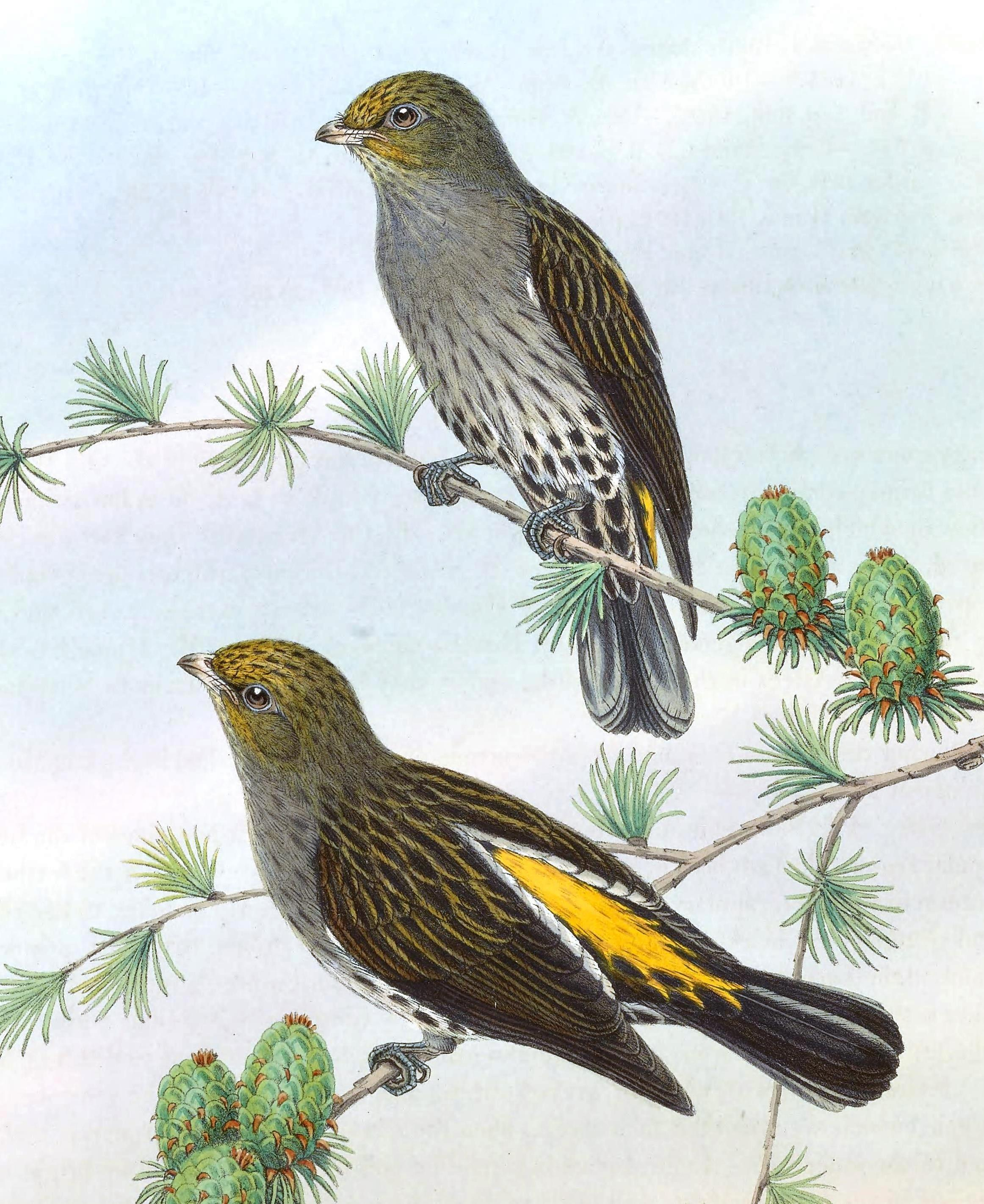 Indicator xanthonotus